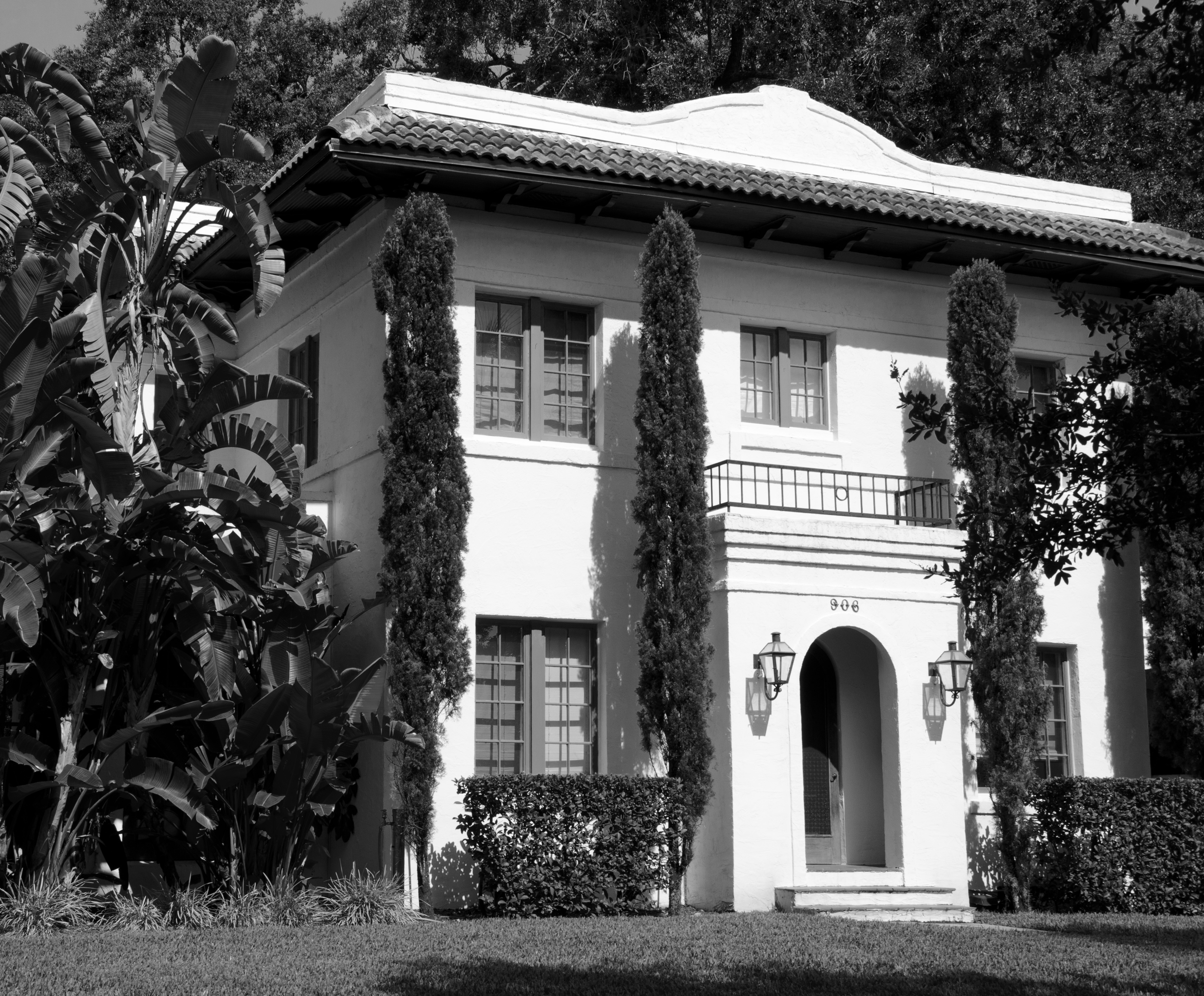 House at 906 Alhambra Ct (intersection with Alameda St) in Lake Adair-Lake Concord Historic District, Orlando FL USA